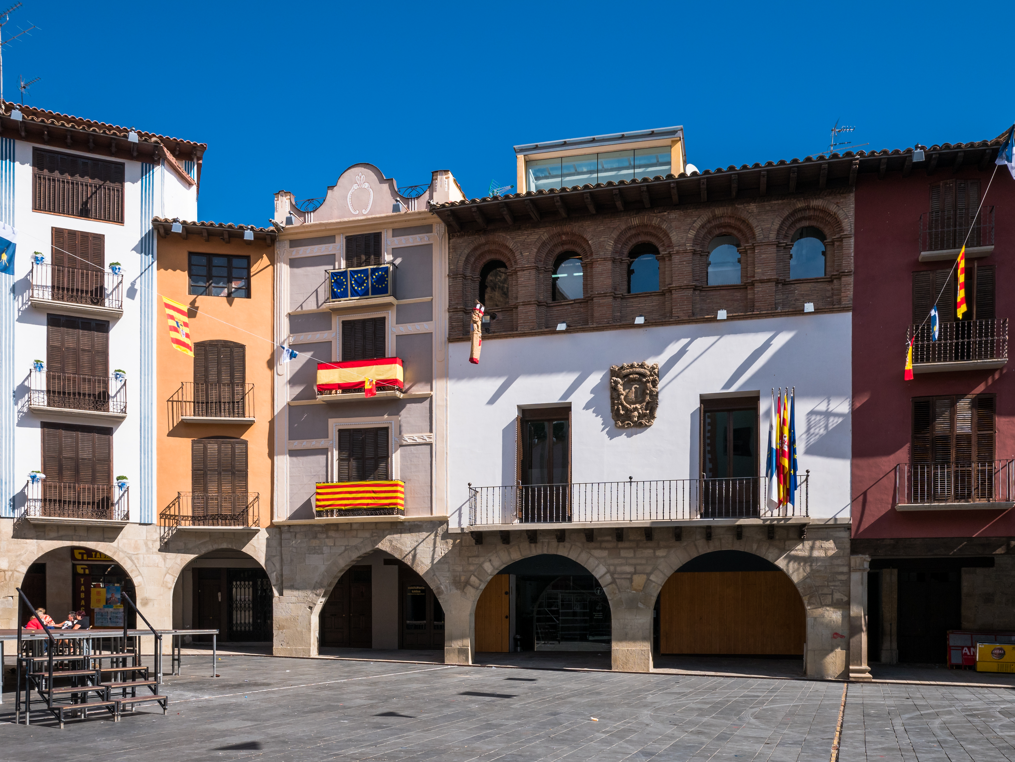 Town hall of Graus. Huesca, Aragon, Spain